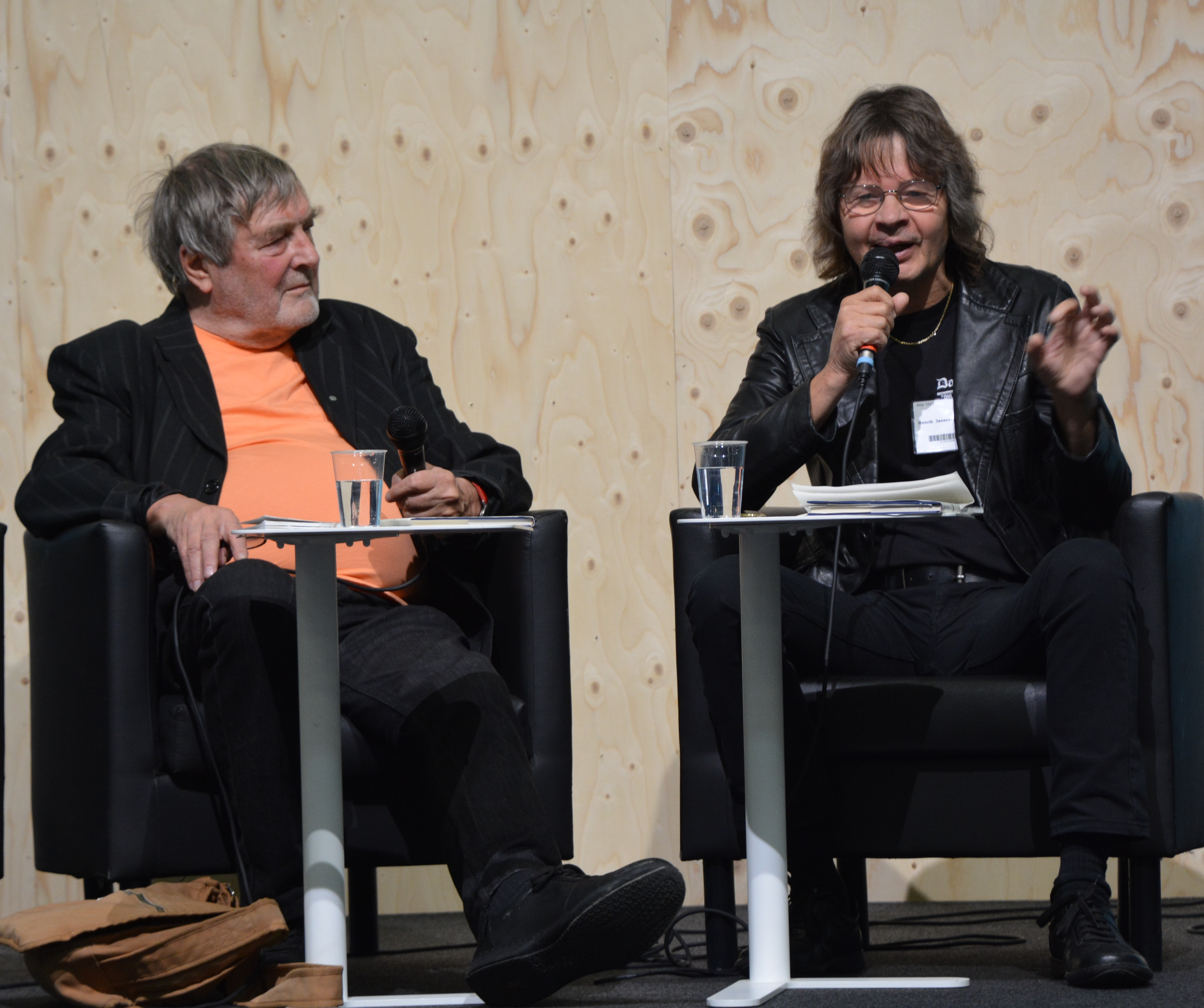 Claes Andersson och Henrik Jansson på Helsingfors bokmässa 2015